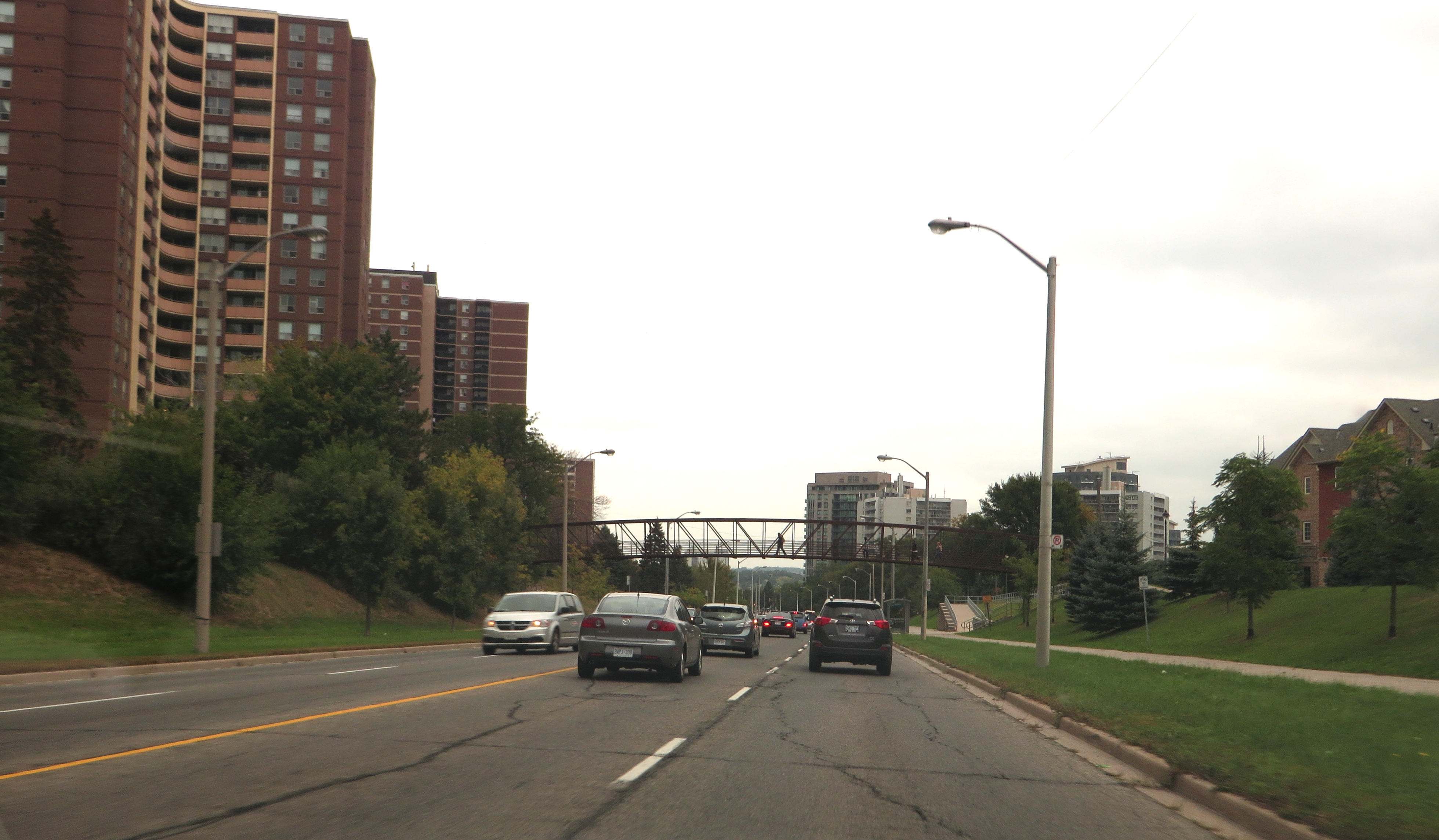 Etobicoke is an administrative district and former municipality within the western part of the city of Toronto, Ontario, Canada. Etobicoke was first settled by Europeans in the 1790s; the municipality grew into city status in the 20th century. Several independent villages and towns developed within the area of Etobicoke, only to be absorbed later into Etobicoke during the era of Metro Toronto. Etobicoke was dissolved in 1998, when it was amalgamated with other Metro Toronto municipalities into the city of Toronto. Etobicoke is bordered on the south by Lake Ontario, on the east by the Humber River, on the west by Etobicoke Creek, the city of Mississauga, and Toronto Pearson International Airport (a small portion of the airport extends into Etobicoke), and on the north by Steeles Avenue West. Etobicoke's population (347,948 in 2011) is very diverse, with people from all over the world including South Asians, East Asians, Middle Easterners, West Indians, Africans and Europeans. Etobicoke is primarily suburban in development, with a lower population density than central Toronto, larger main streets, shopping malls, and cul-de-sac housing developments. Etobicoke has several expressways within its borders, including the Queen Elizabeth Way, Gardiner Expressway, Ontario Highway 427, Ontario Highway 401 and Ontario Highway 409. Etobicoke is connected to the rest of Toronto by four stations of the Bloor-Danforth subway, which has its western terminus at Kipling Avenue, and by four GO stations. Etobicoke has one post-secondary institution: Humber College, which has two campuses. In 2011, according to the National Household Survey, Etobicoke was 58.7% White, 13.6% South Asian, 10.5% Black, 3.0% Latin American, 3.0% Filipino, 2.2% Chinese, 1.4% Korean, 1.3% Southeast Asian, 1.3% West Asian, 1.2% Arab, and 3.8% Other. 46.9% of the population are immigrants and 37.2% of North Etobicoke is of South Asian origin, the highest such percentage in Toronto.